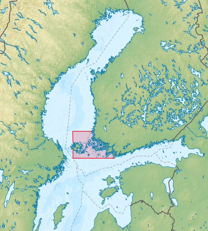 The Archipelago Sea